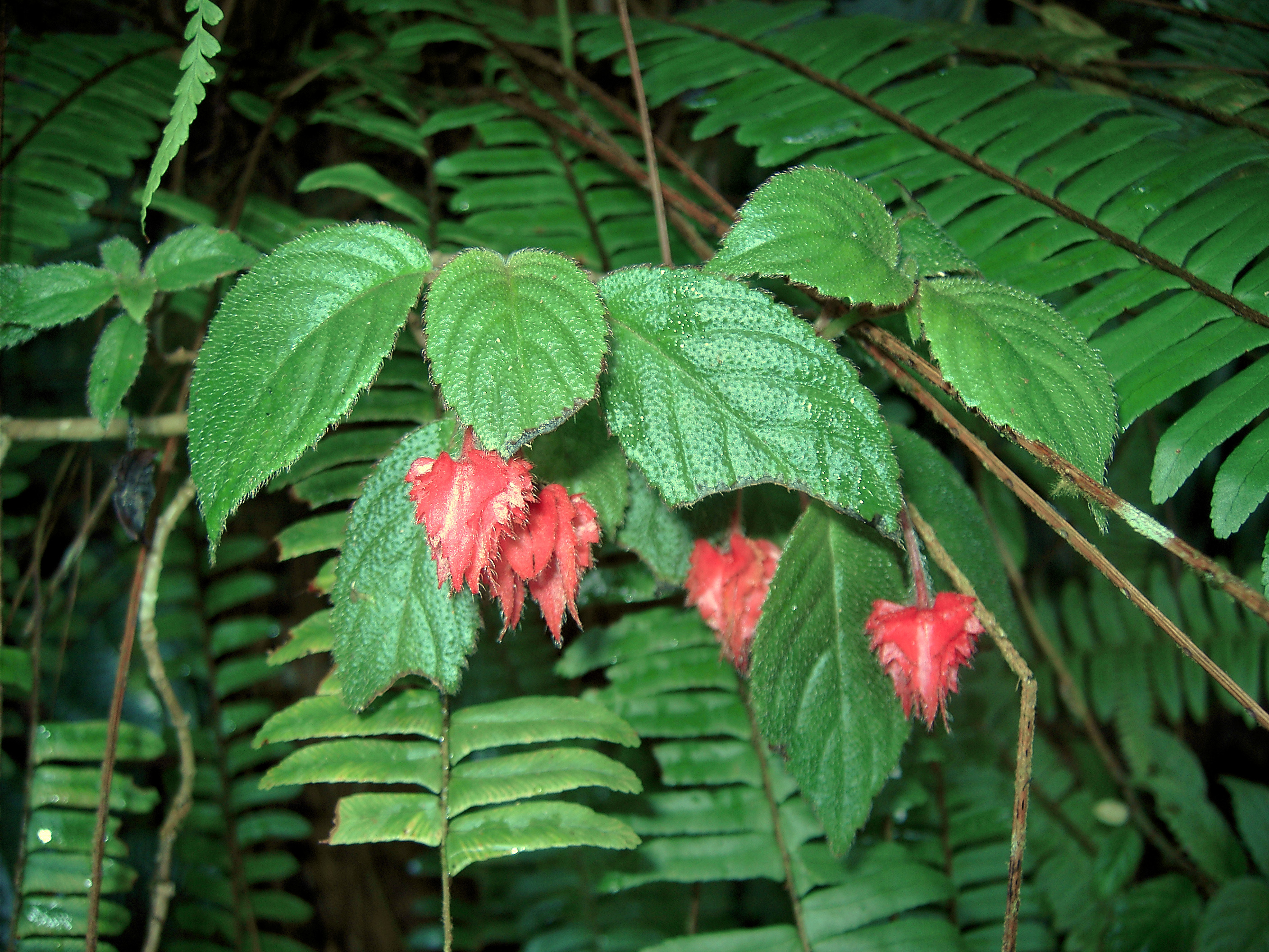 near Emerald Pool, Dominica W.I.